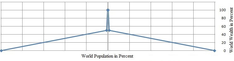 Pyramid showing 50% 1% wealth distribution